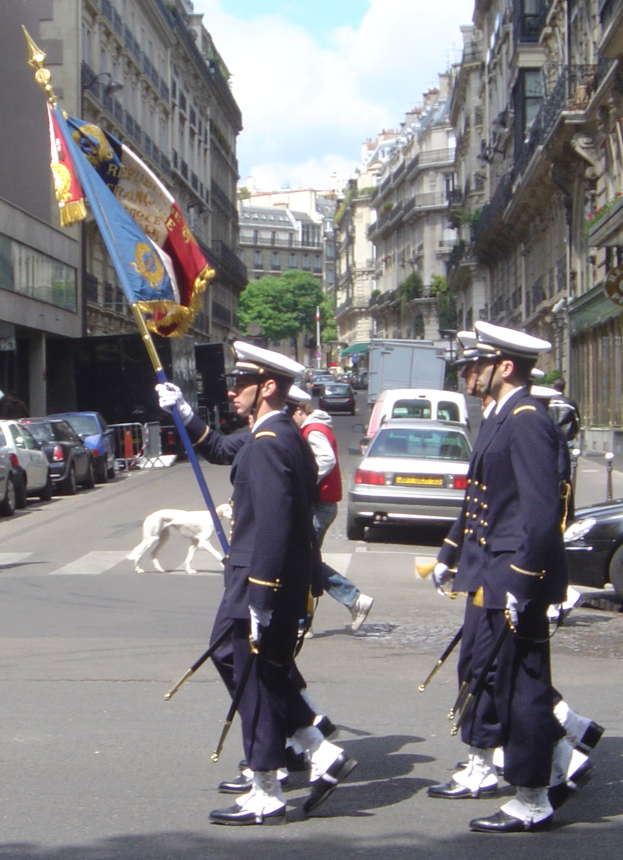 Flag guard of the French Naval Academy parading on the Champs-Élysées (Paris) on May 8, 2005.